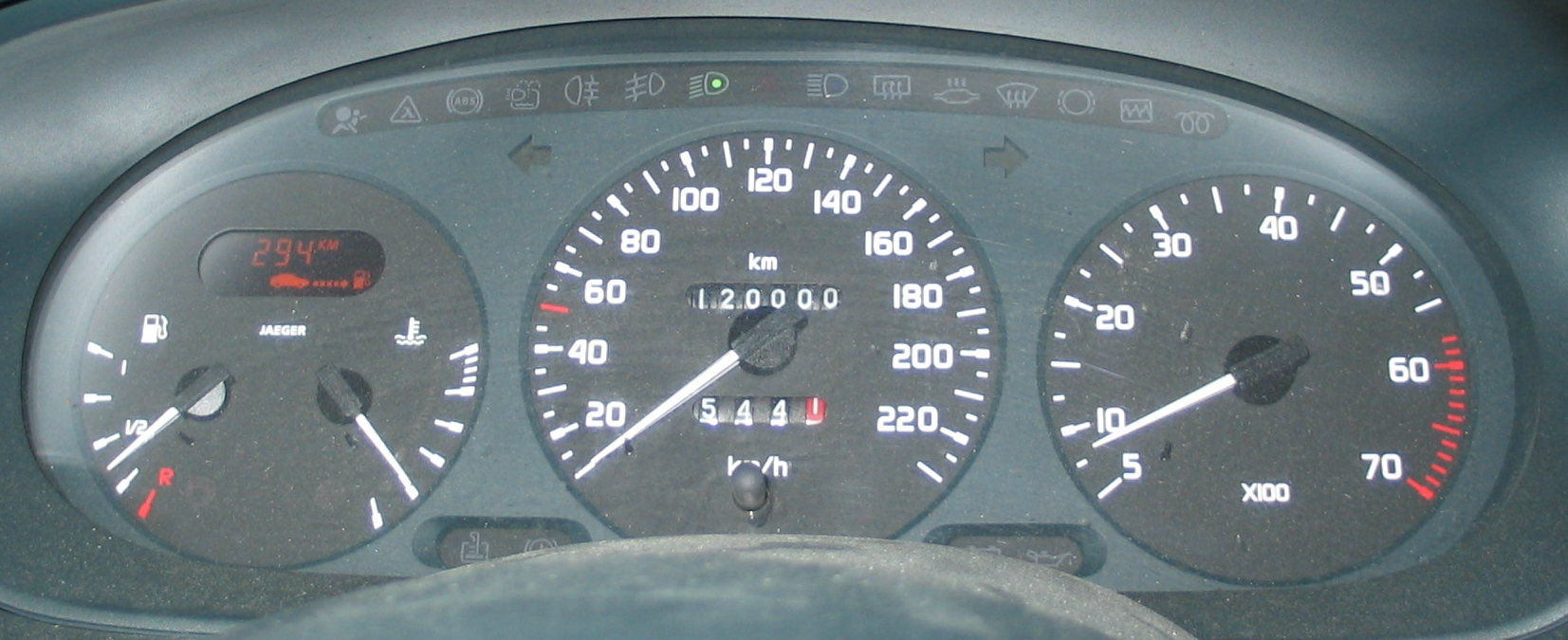 Renault Mégane odometer.